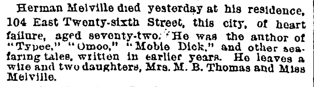 Obituary notice for Herman Melville in the New York Times